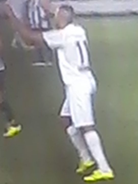 Geuvânio playing for Santos against Figueirense on 11 July 2015